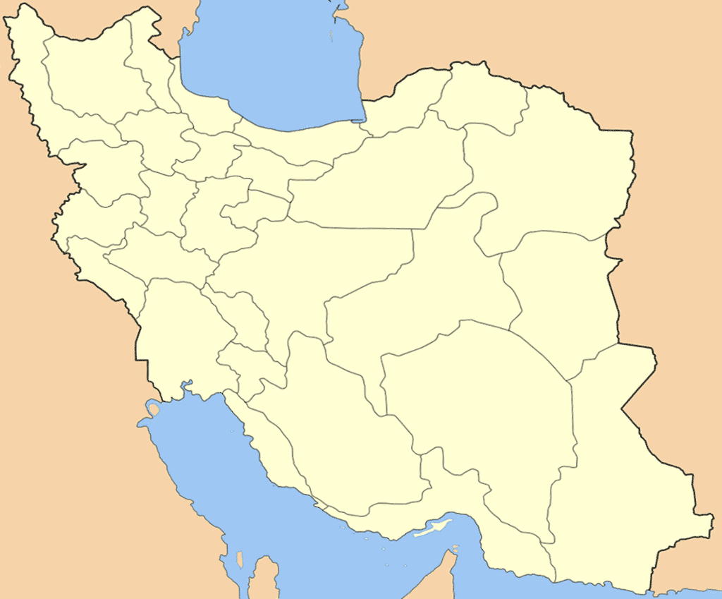 Blank locator map (orthographic projection) of Iran By Kaveh General SVG version